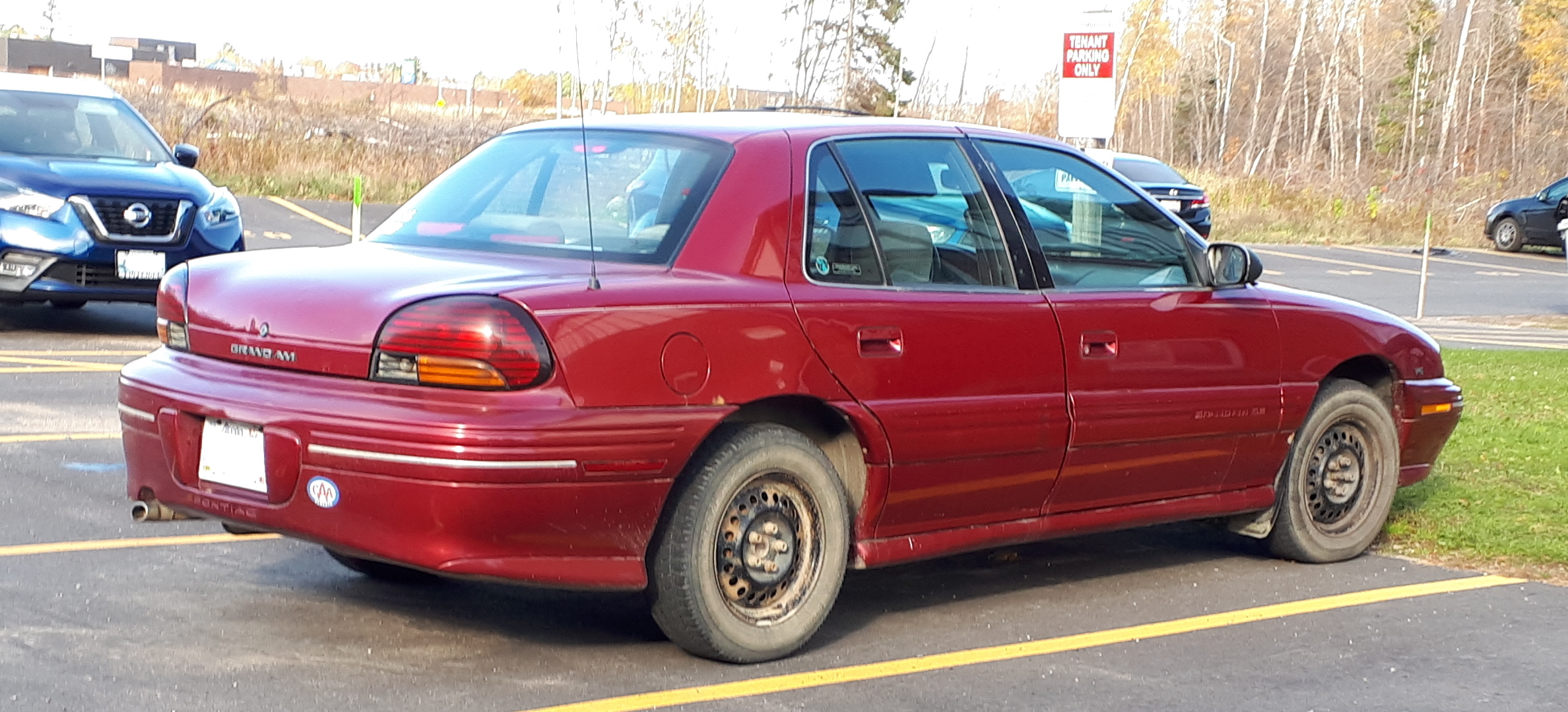 1996-1998 Pontiac Grand Am photographed in Sault Ste. Marie, Ontario, Canada